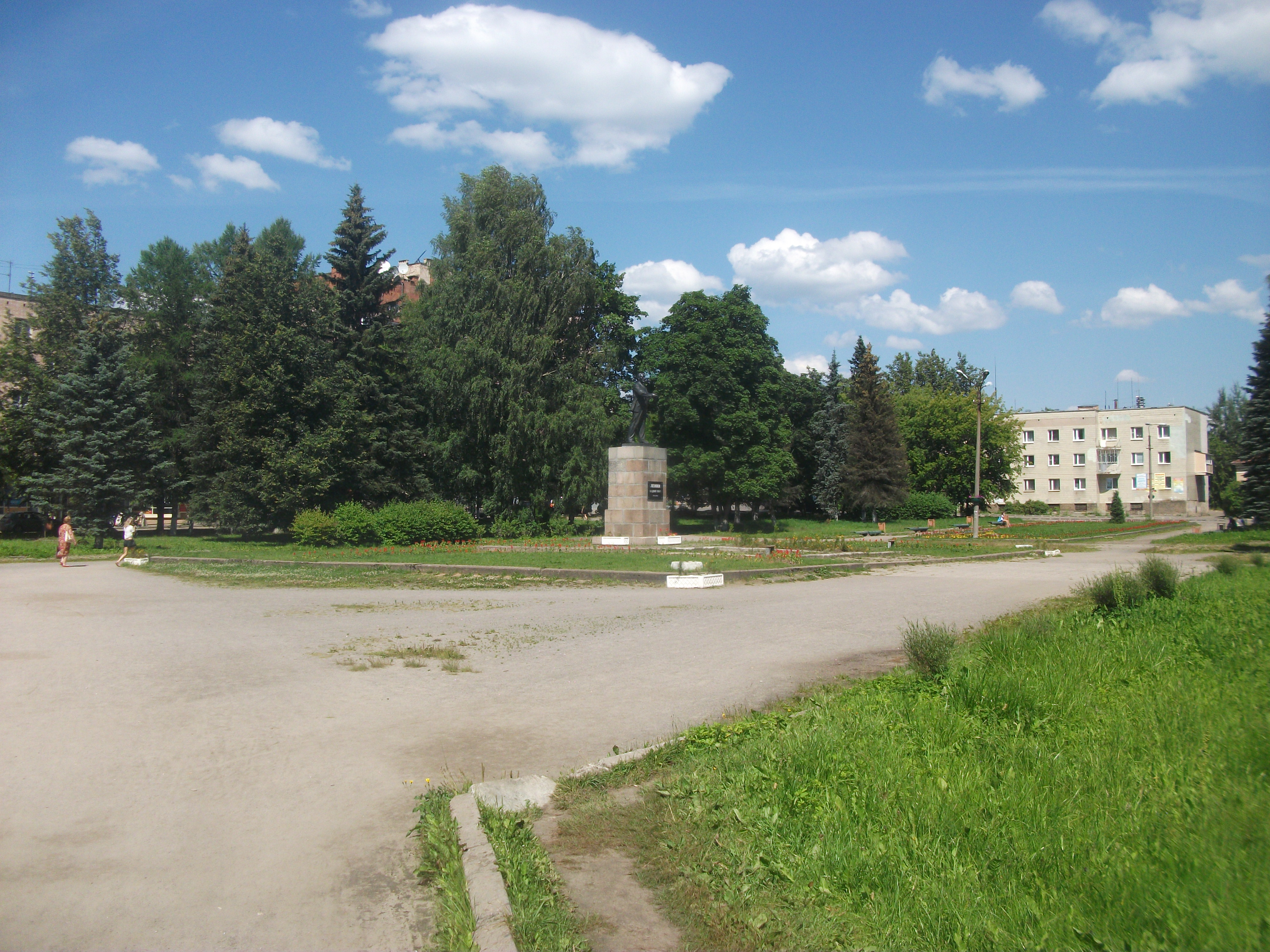 Luga. Lenin's place